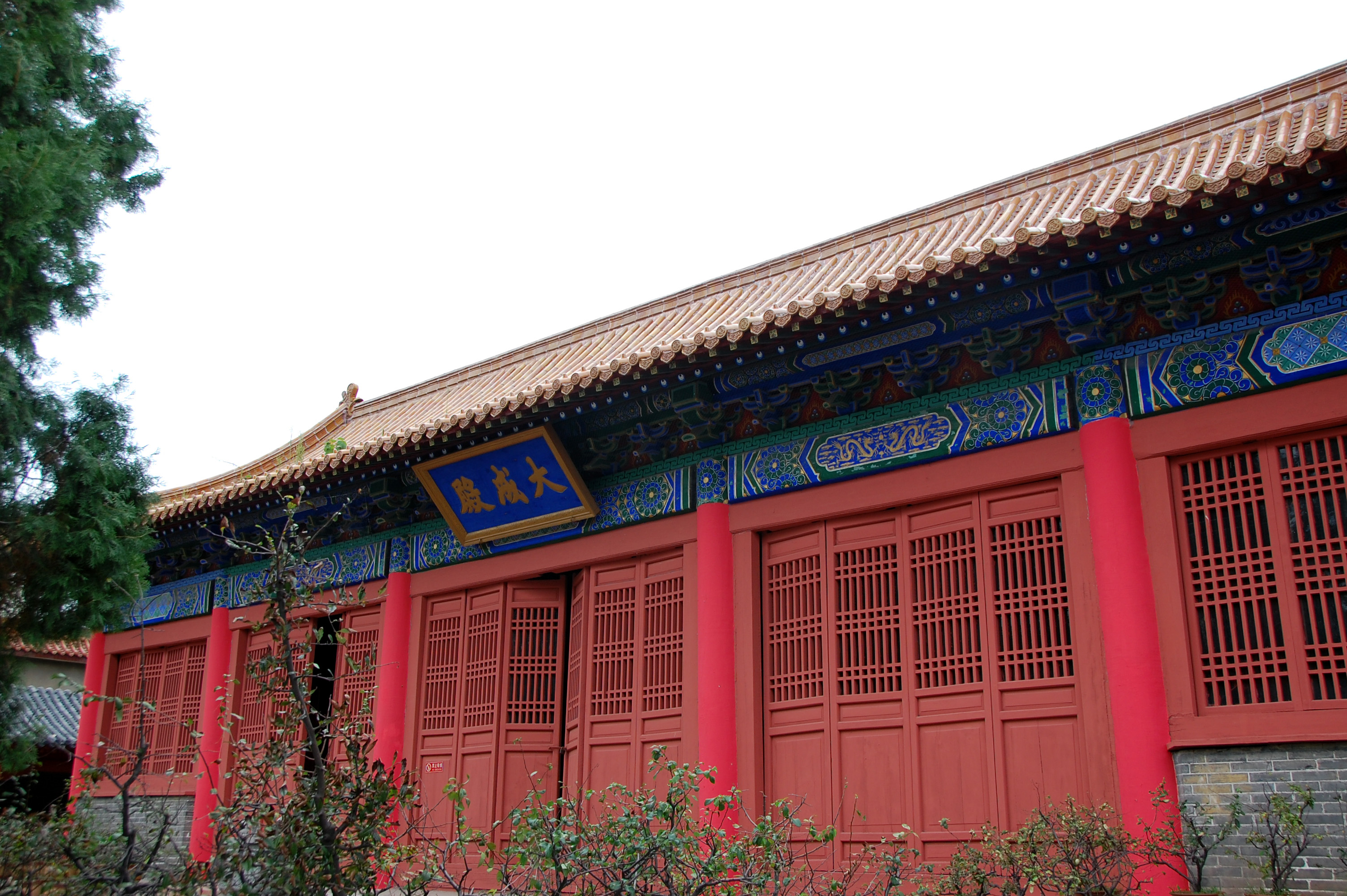 Confucian Temple of Linyi